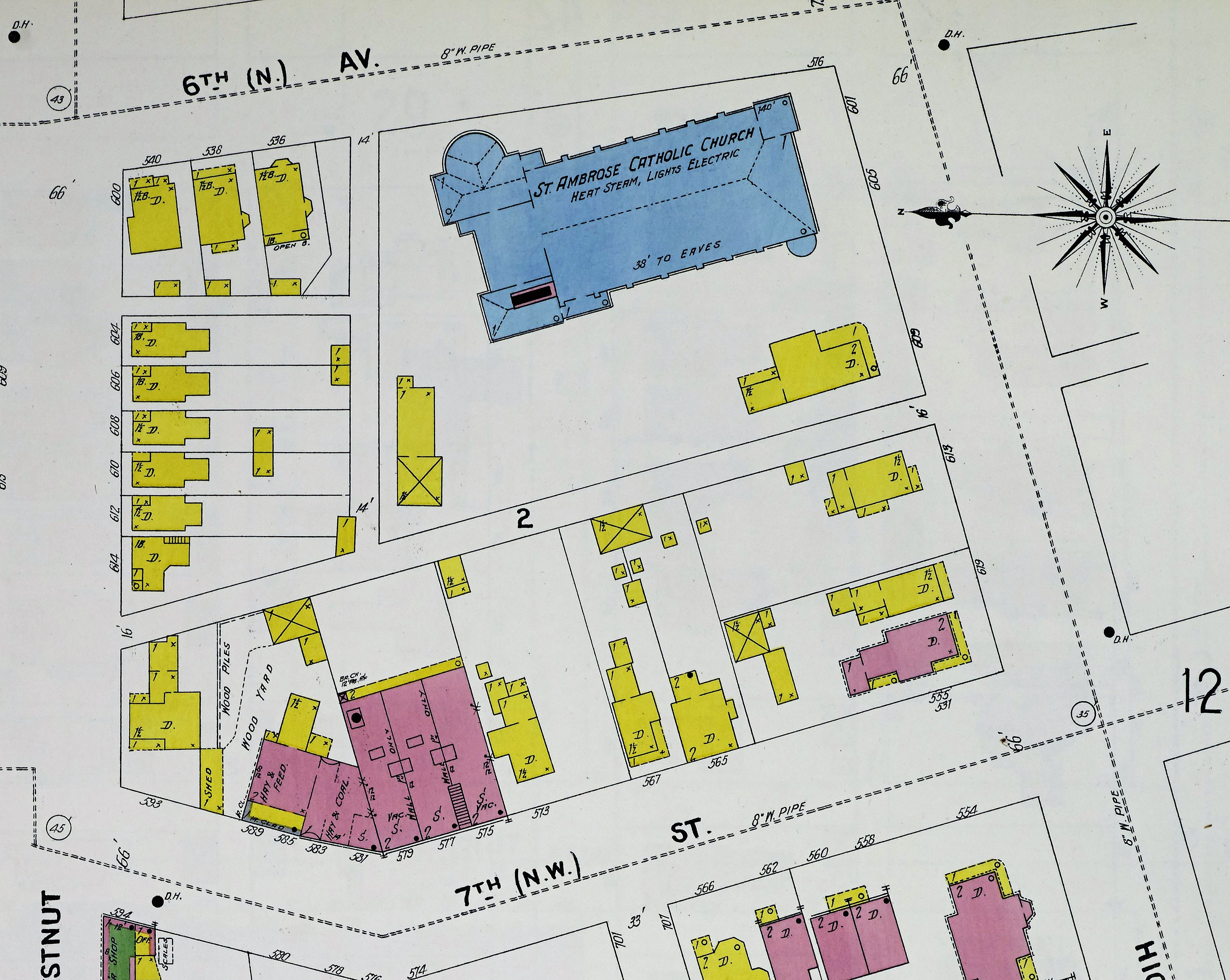 A 1901 Sanborn Fire Insurance Map cropped to show the area around St. Ambrose Cathedral in Des Moines, Iowa, United States. The cathedral is shown in blue. There appear to be no other buildings associated with it in the immediate area.